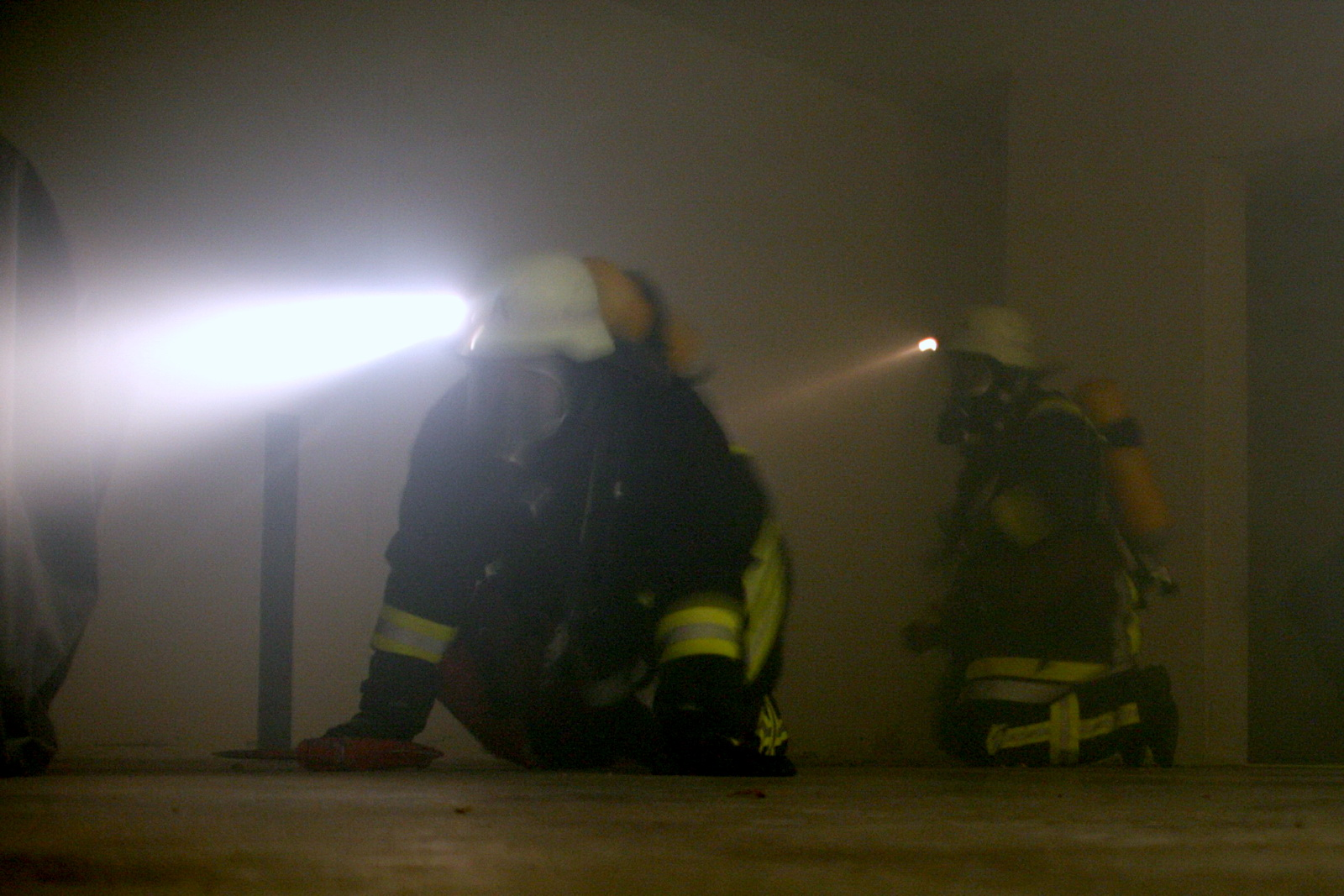 Two Firefighters wearing a SCBA during a Training Scenary